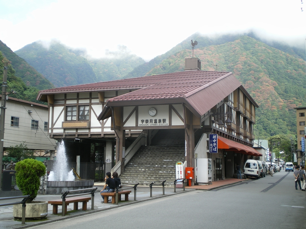 Toyama Chihō Railway Main Line Unazuki-Onsen Station building